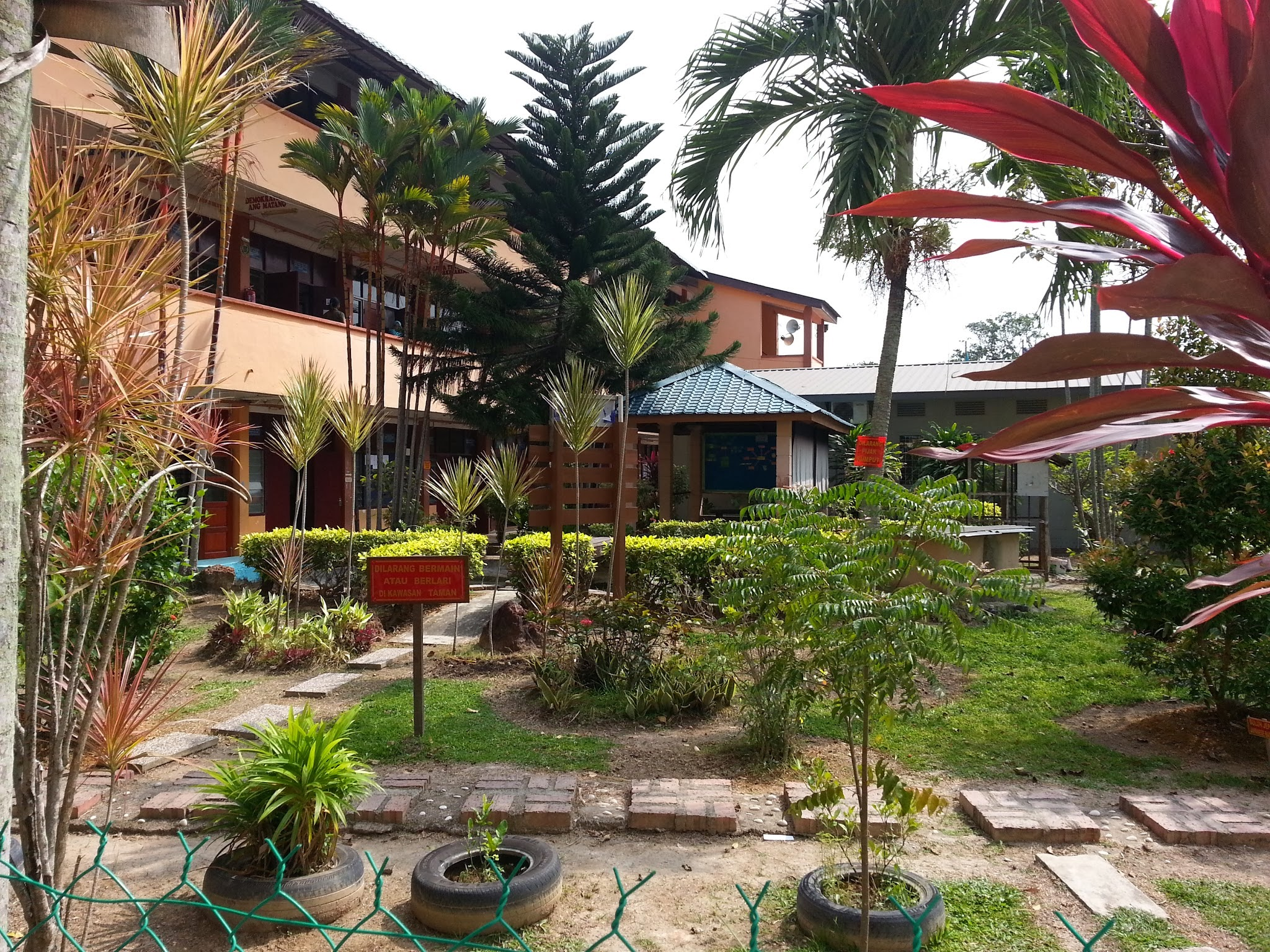 panorama sksb